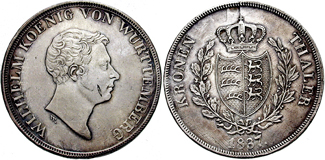 German states, Württemberg. Wilhelm I. 1816-1864. AR 1 Kronenthaler (39mm, 29.44 gm). Dated 1837. Bare head right Crowned royal coat-of-arms within wreath. Davenport 954; KM 571. VF, some scratches in fields. From the Charles Weber Collection. Ex Peus 247 (29 August 1952), lot 1253.